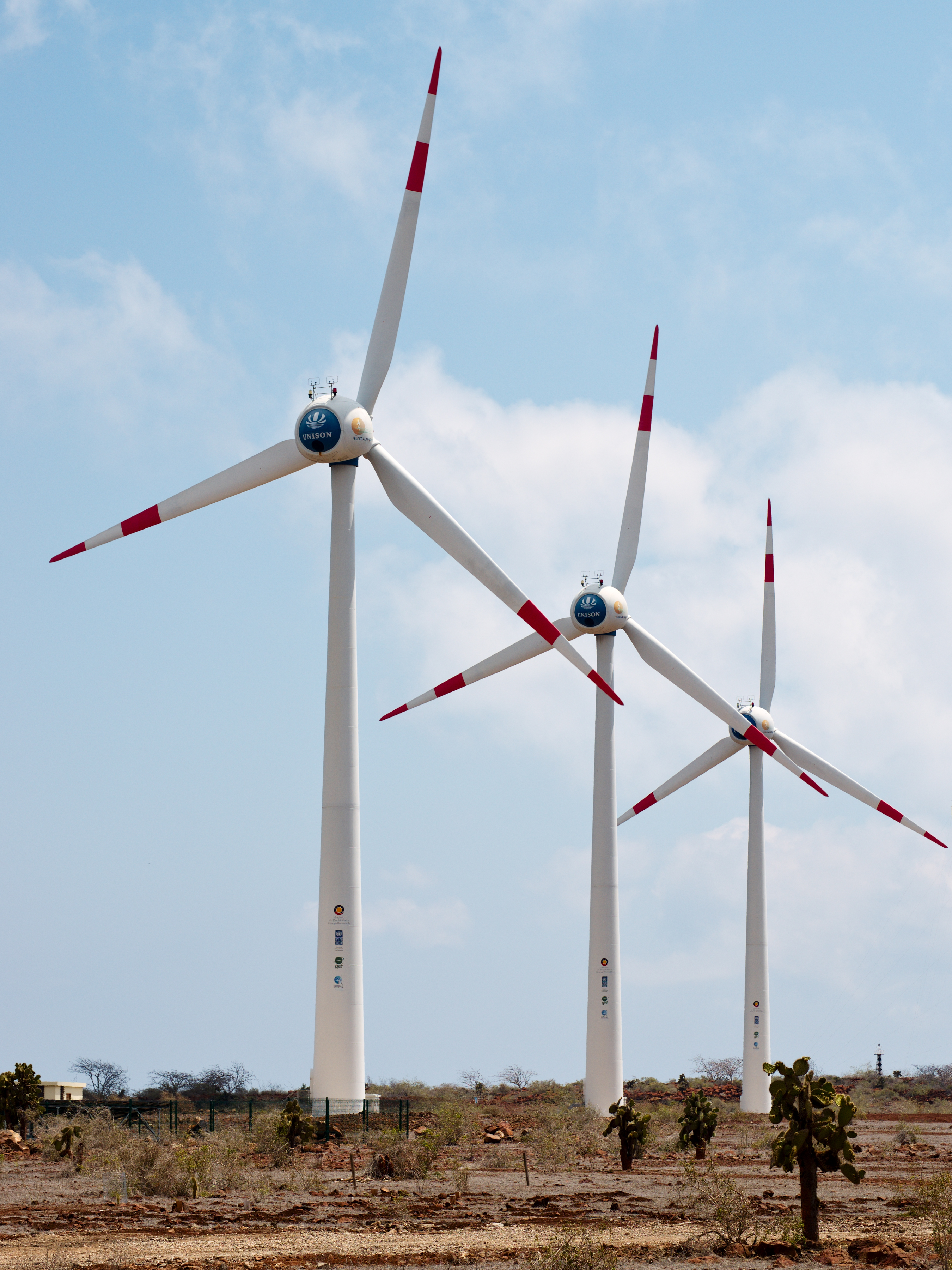 Wind turbines at the Seymour Airport, Baltra island, Galapagos, 2017.